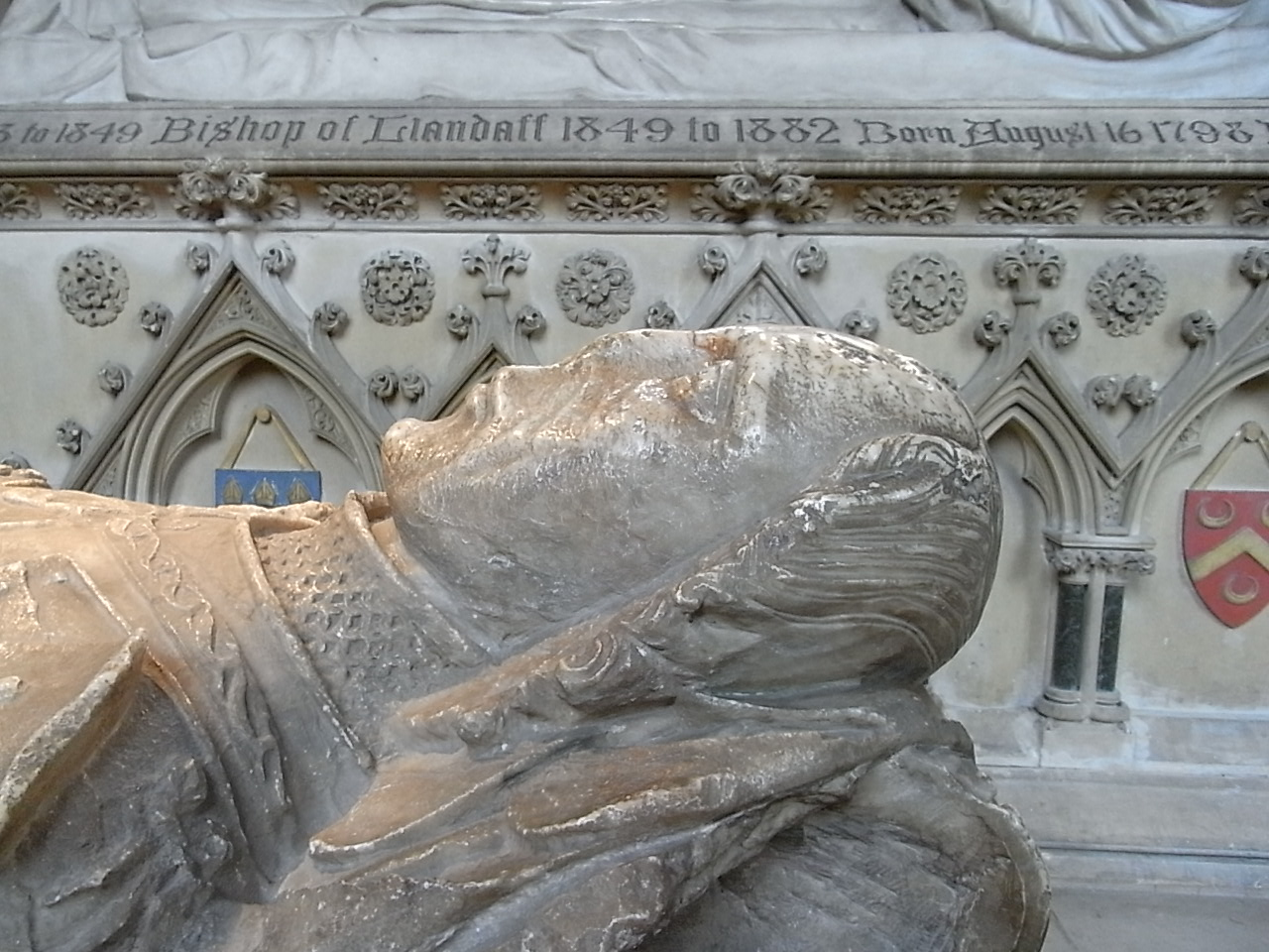 Effigy of Sir David Mathew(d.1484), north aisle, Llandaff Cathedral, Wales